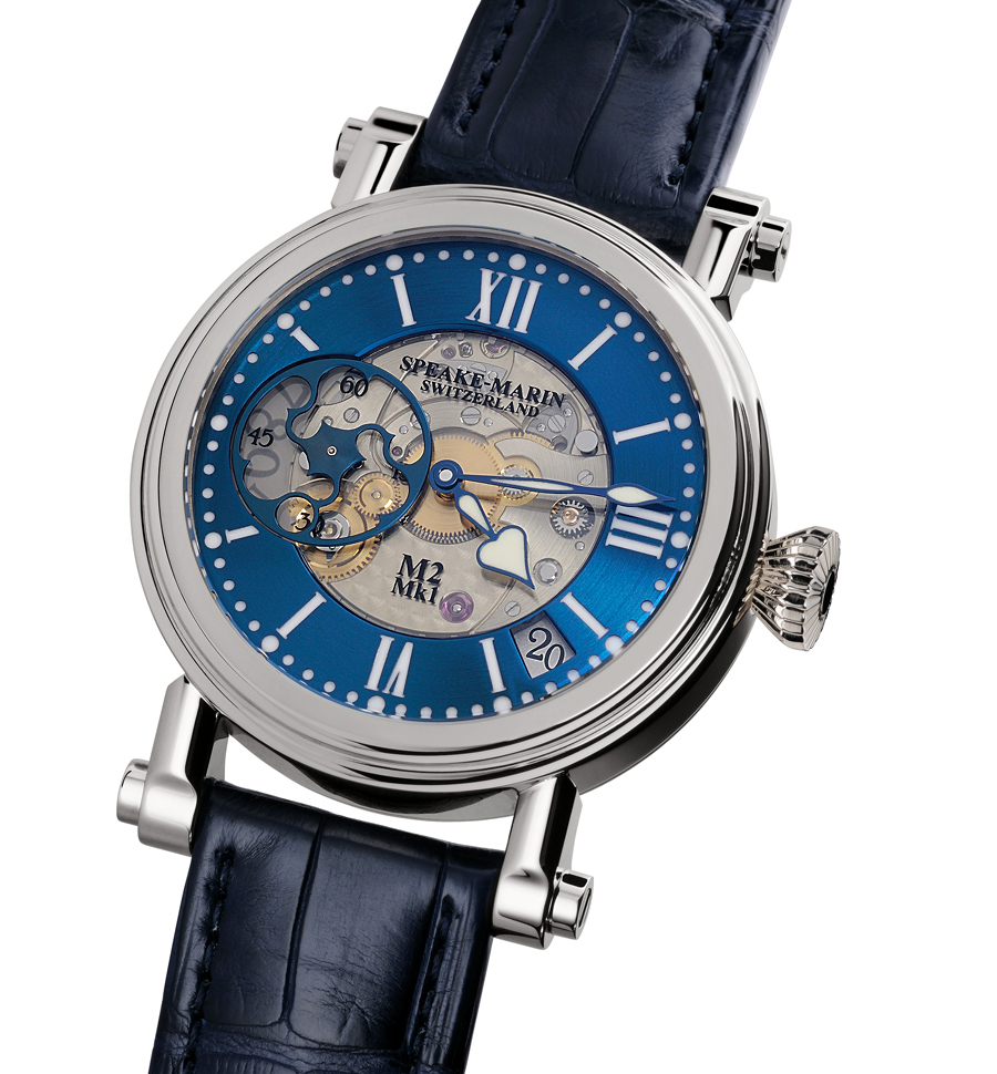 Marin 2 Thalassa by Speake-Marin. For more information, please visit